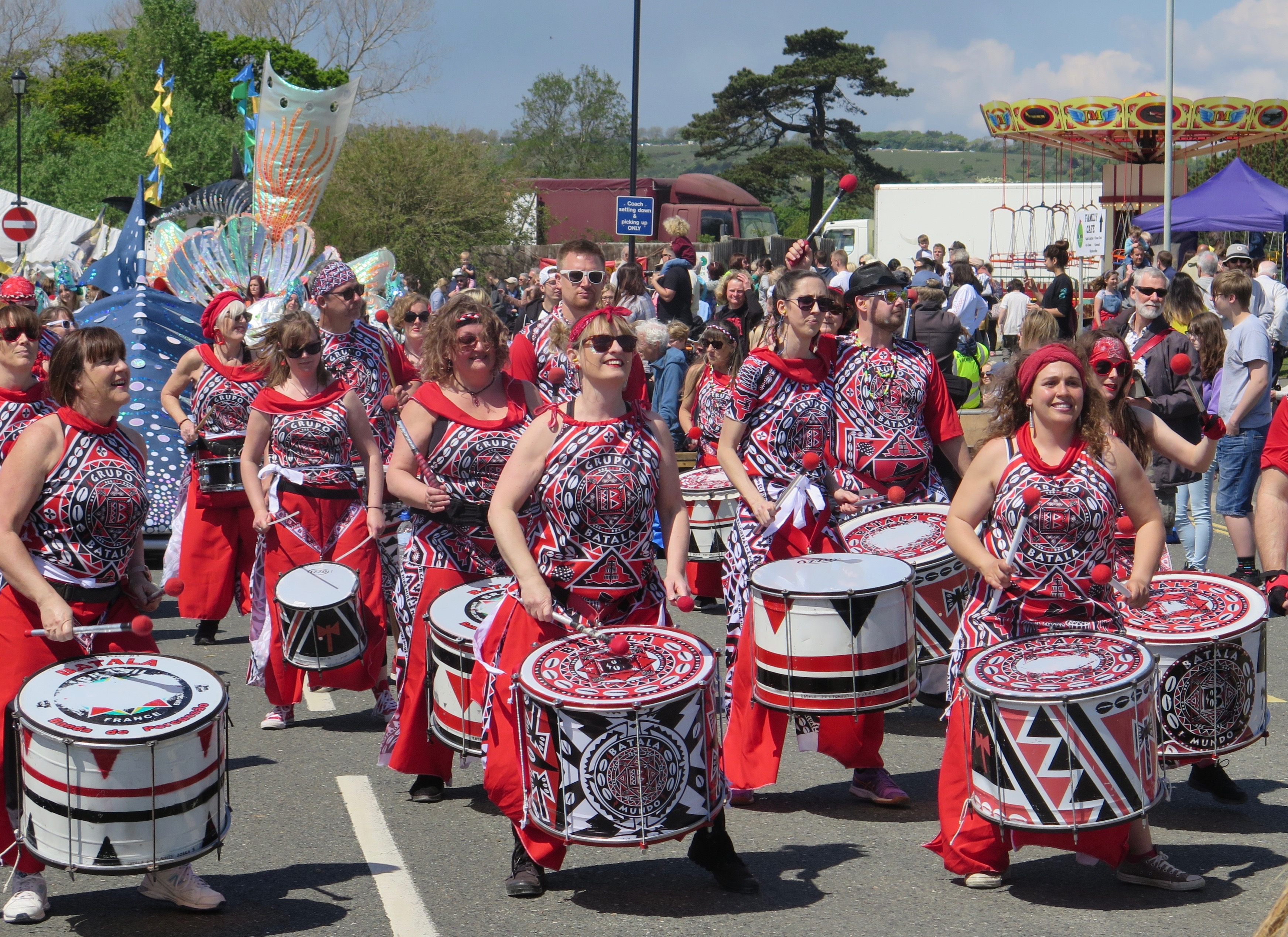 The Batala Samba drums at Hullabaloo, Sandown, isle of Wight.